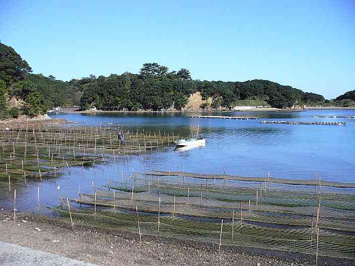 There are many laver farms in Ago Bay, Hamajima-cho, Shima city, Mie prefecture Japan.